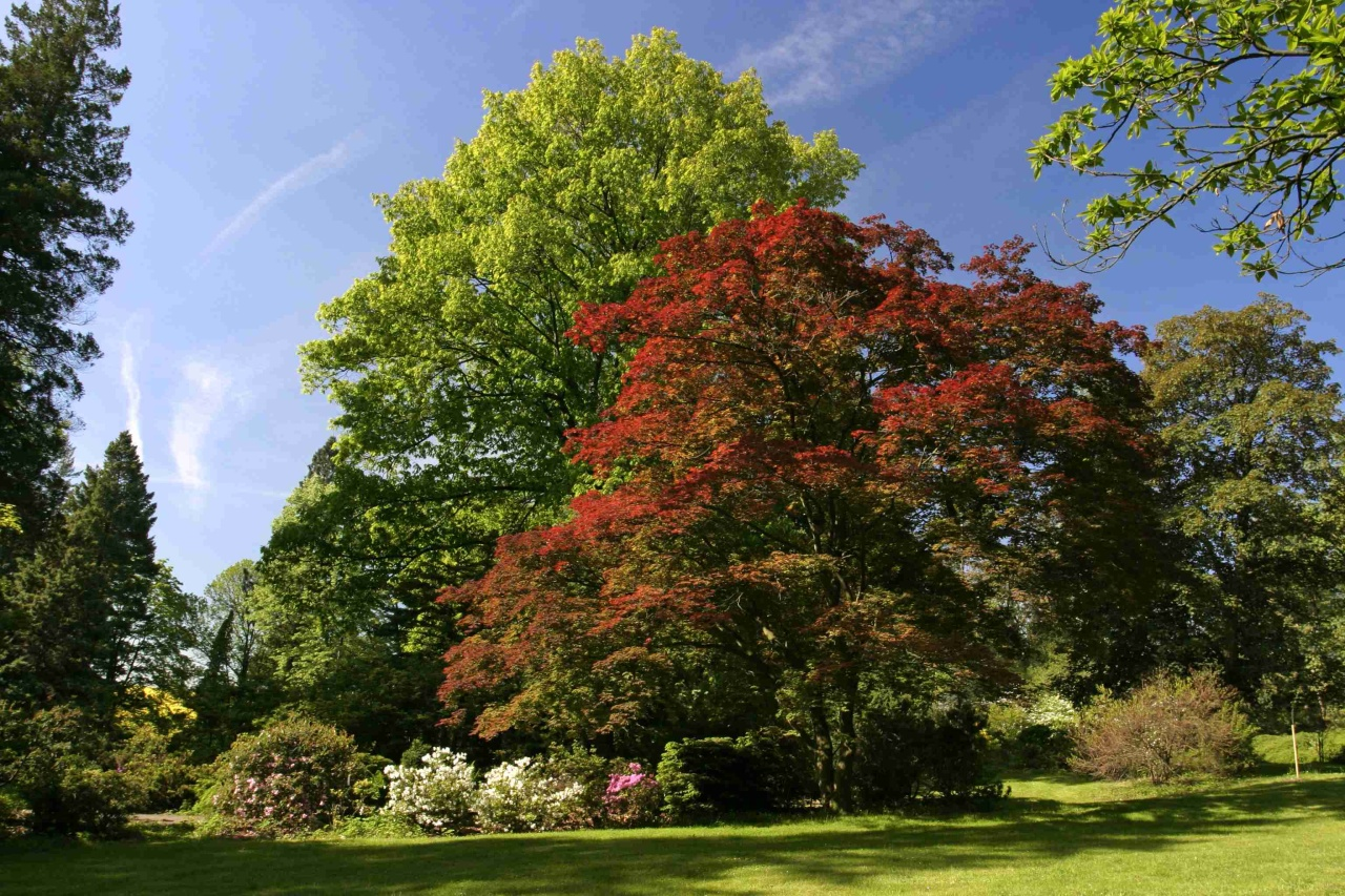 Silesian museum - Arboretum 3